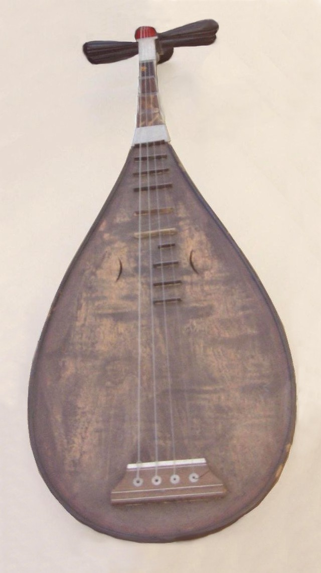 14-fretted Pipa (Chinese lute) Qing Dynasty